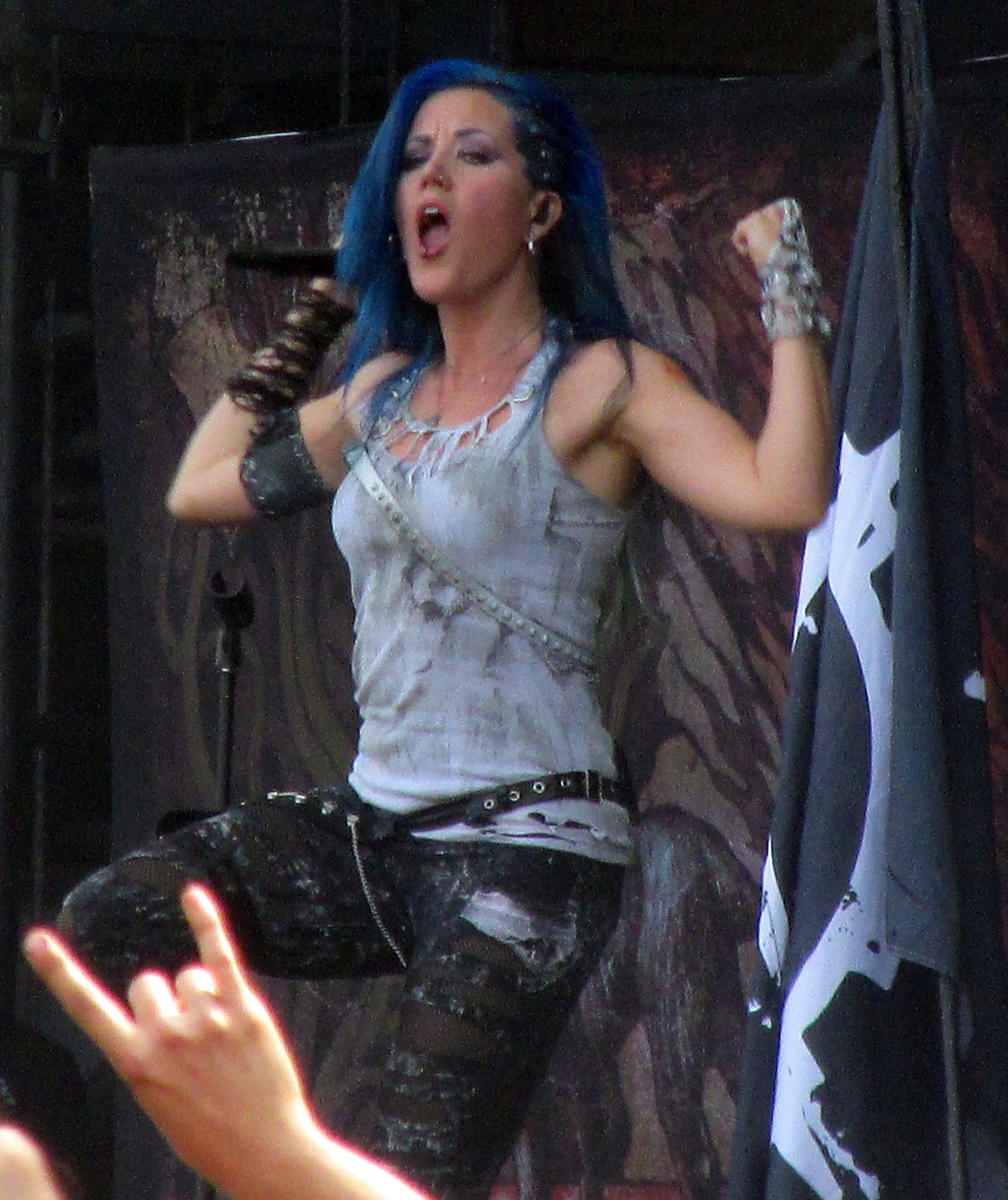 Alissa White-Gluz performing with Arch Enemy at Wacken Open Air 2014